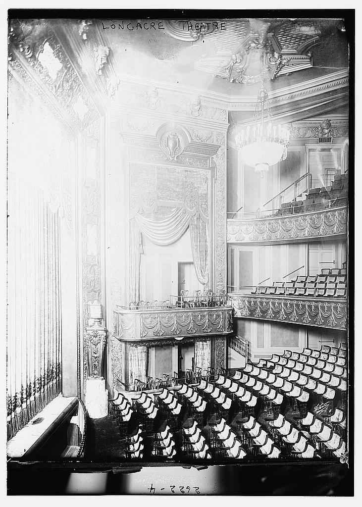 Bain News Service,, publisher. Longacre Theatre [between ca. 1910 and ca. 1915] 1 negative : glass ; 5 x 7 in. or smaller. Notes: Title from unverified data provided by the Bain News Service on the negatives or caption cards. Forms part of: George Grantham Bain Collection (Library of Congress). Format: Glass negatives. Repository: Library of Congress, Prints and Photographs Division, Washington, D.C. 20540 USA, General information about the Bain Collection is available at Persistent URL: Call Number: LC-B2- 2622-4